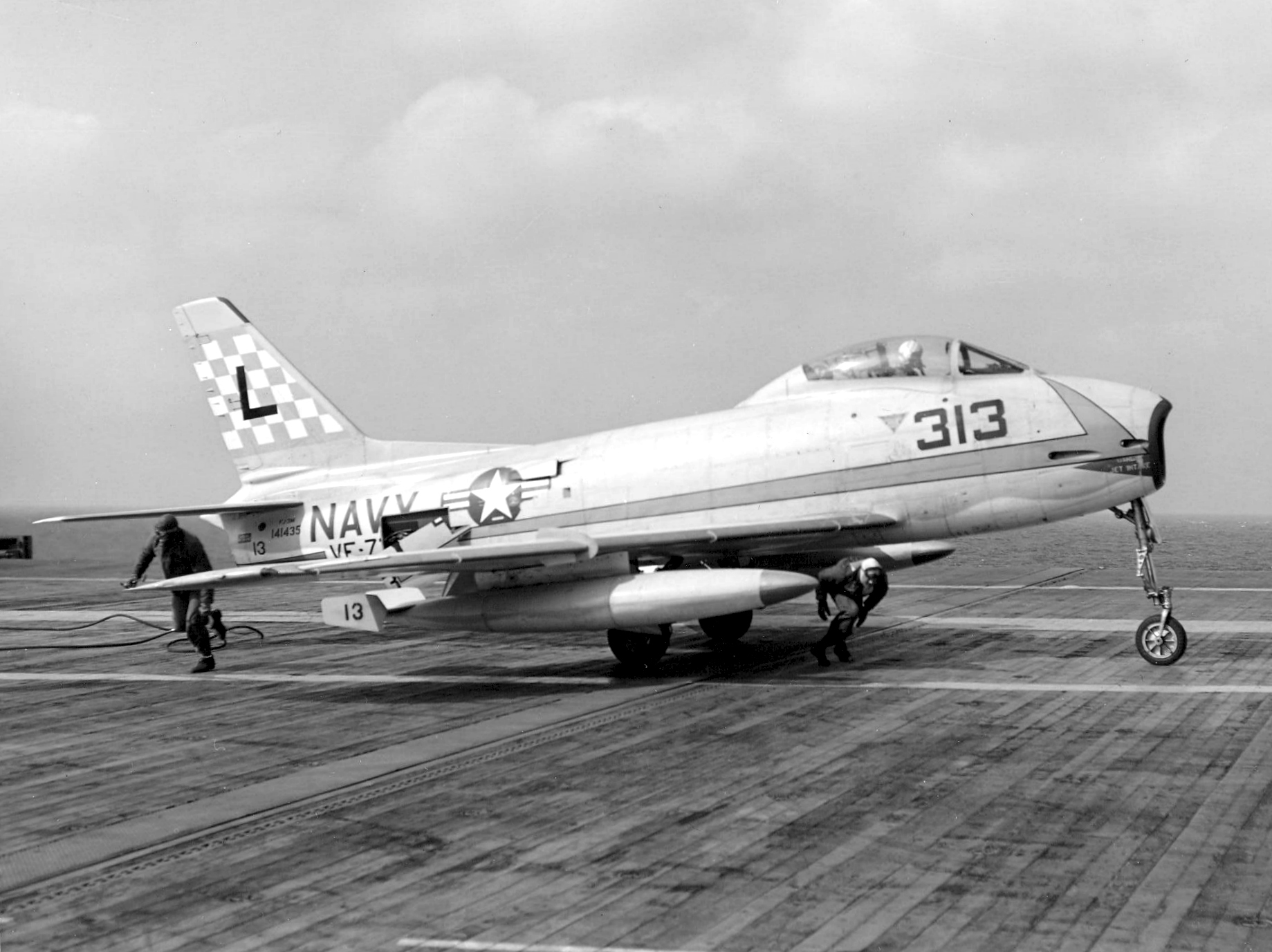 A U.S. Navy North American FJ-3M Fury (BuNo 141435) of Fighter Squadron VF-73 "Jesters" after landing aboard the aircraft carrier USS Randolph (CVA-15), in 1957. VF-73 was assigned to Carrier Air Group 4 (CVG-4) aboard the Randolph for a deployment to the Mediterranean Sea from 1 July 1957 to 24 February 1958.